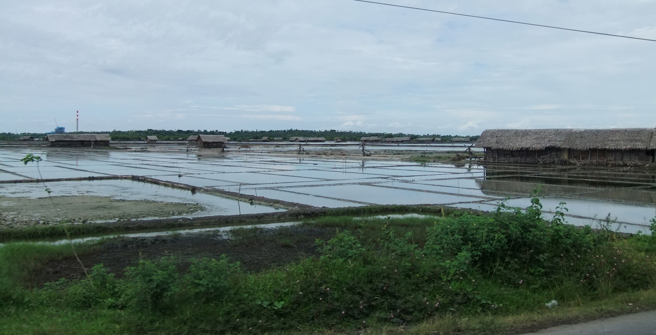 Salt evaporation ponds in Jeneponto, South Sulawesi